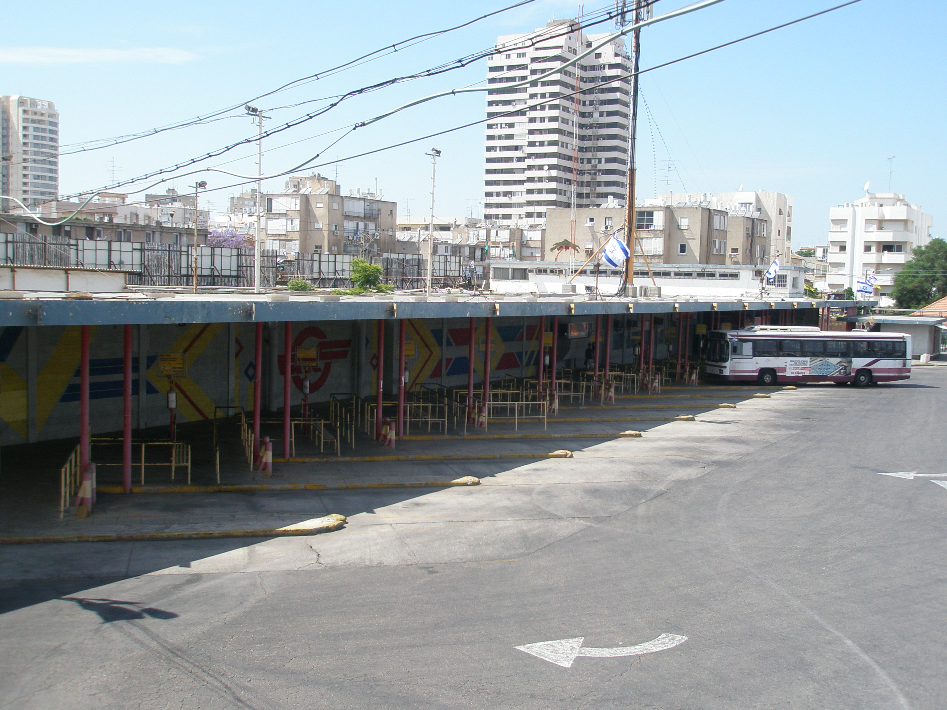 Central bus station of Herzliya